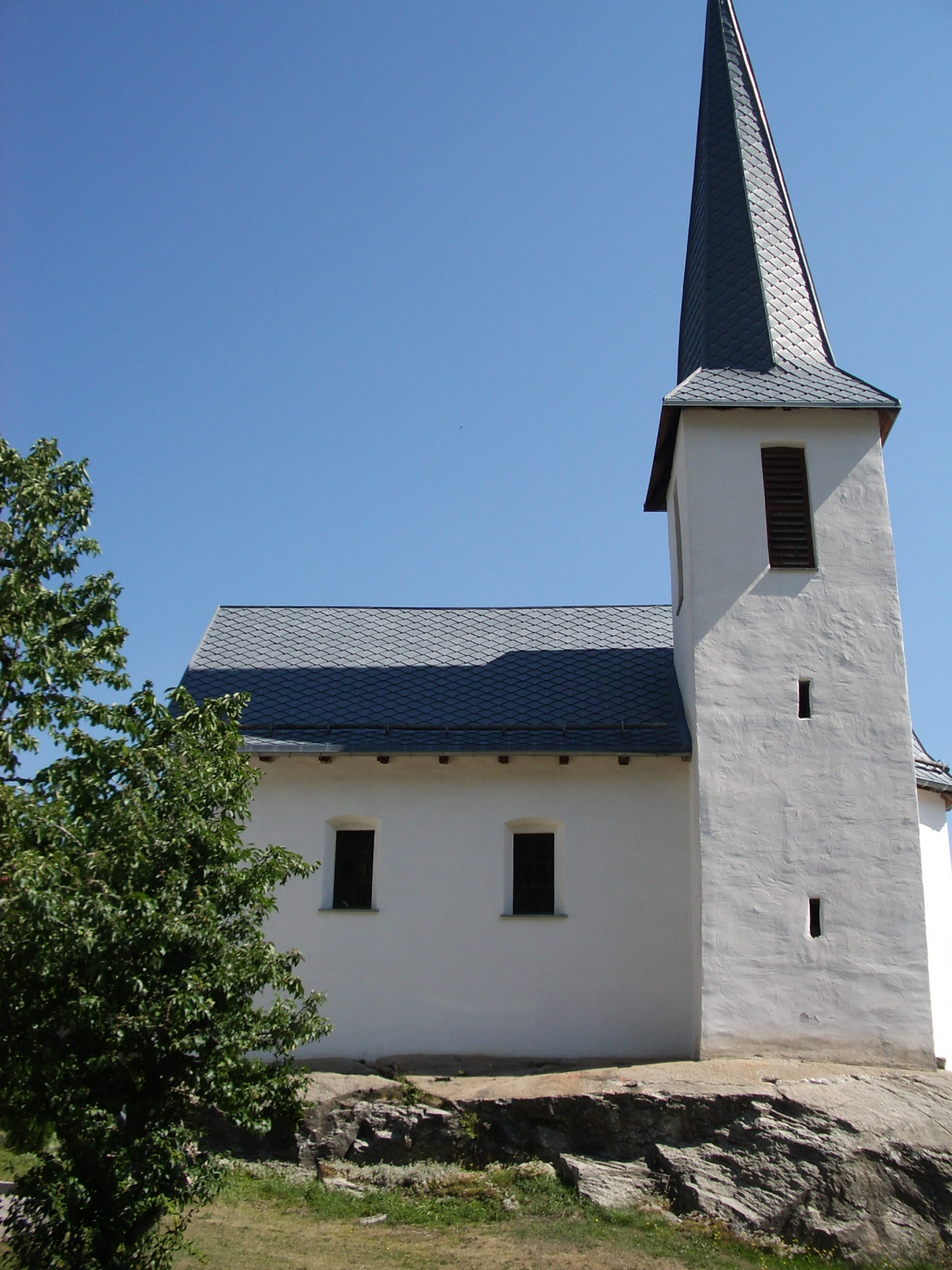 Flond GR, Switzerland self-made, July 2006